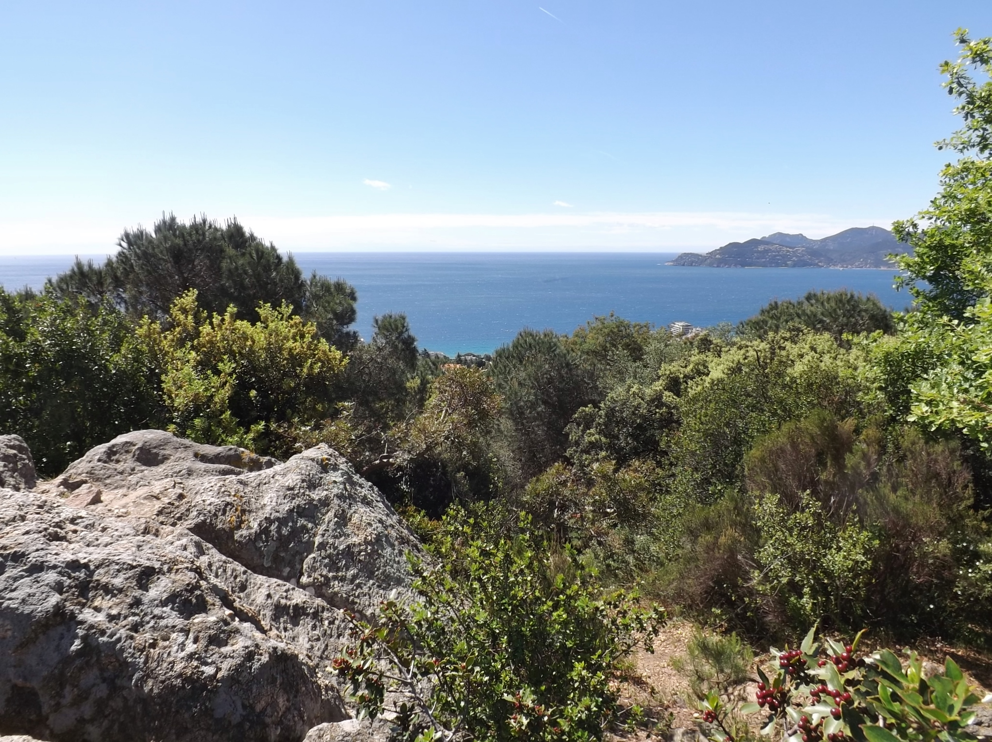 Sight of the bay of Cannes and Esterel mountains, from the la Croix-des-Gardes natural park and forest, on the heights of Cannes on the French Riviera, in Alpes-Maritimes.